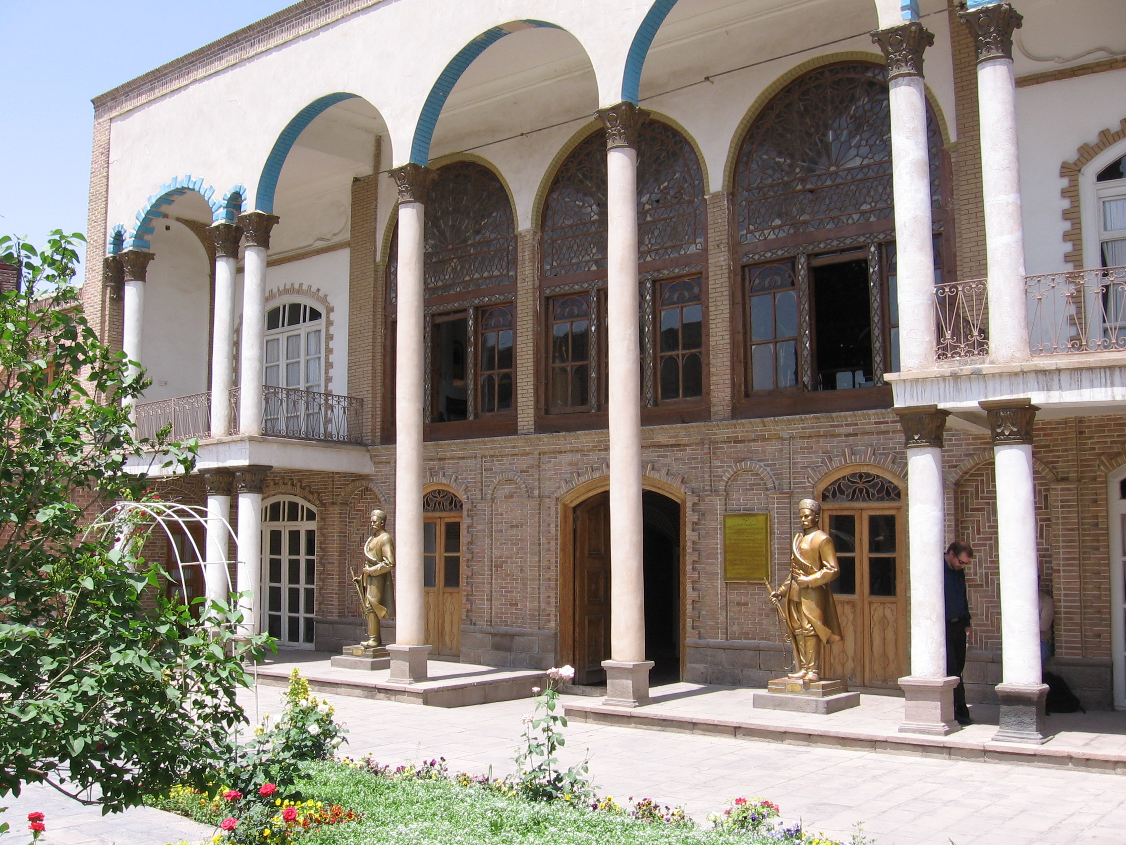 House of Constitutional Revolution, Tabriz, Iran (خانهٔ مشروطه، تبریز، ایران)